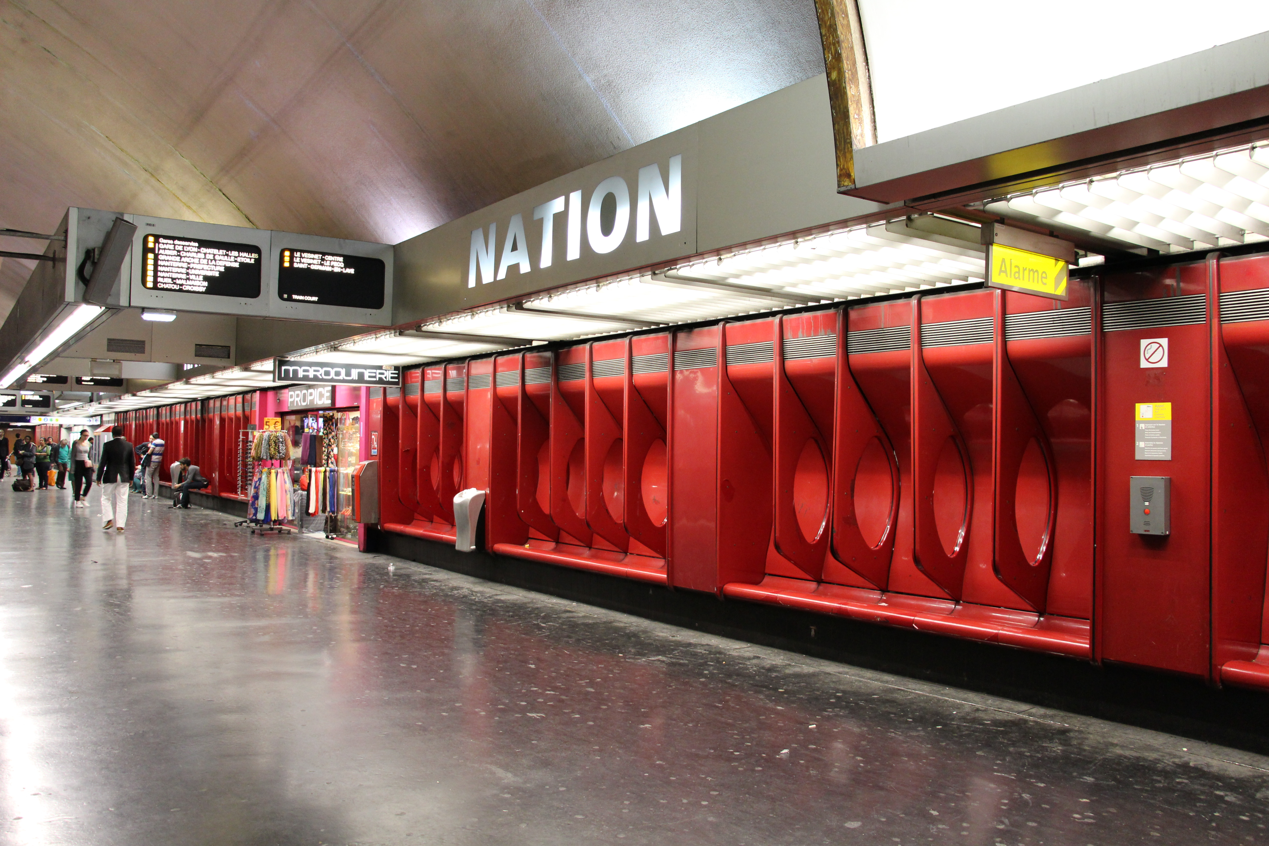 (Nation) Place de la Nation Nation RER station built in the 1970s.